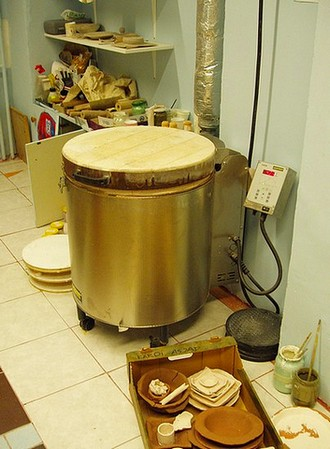 Klin at Kose Artschool in Estonia.